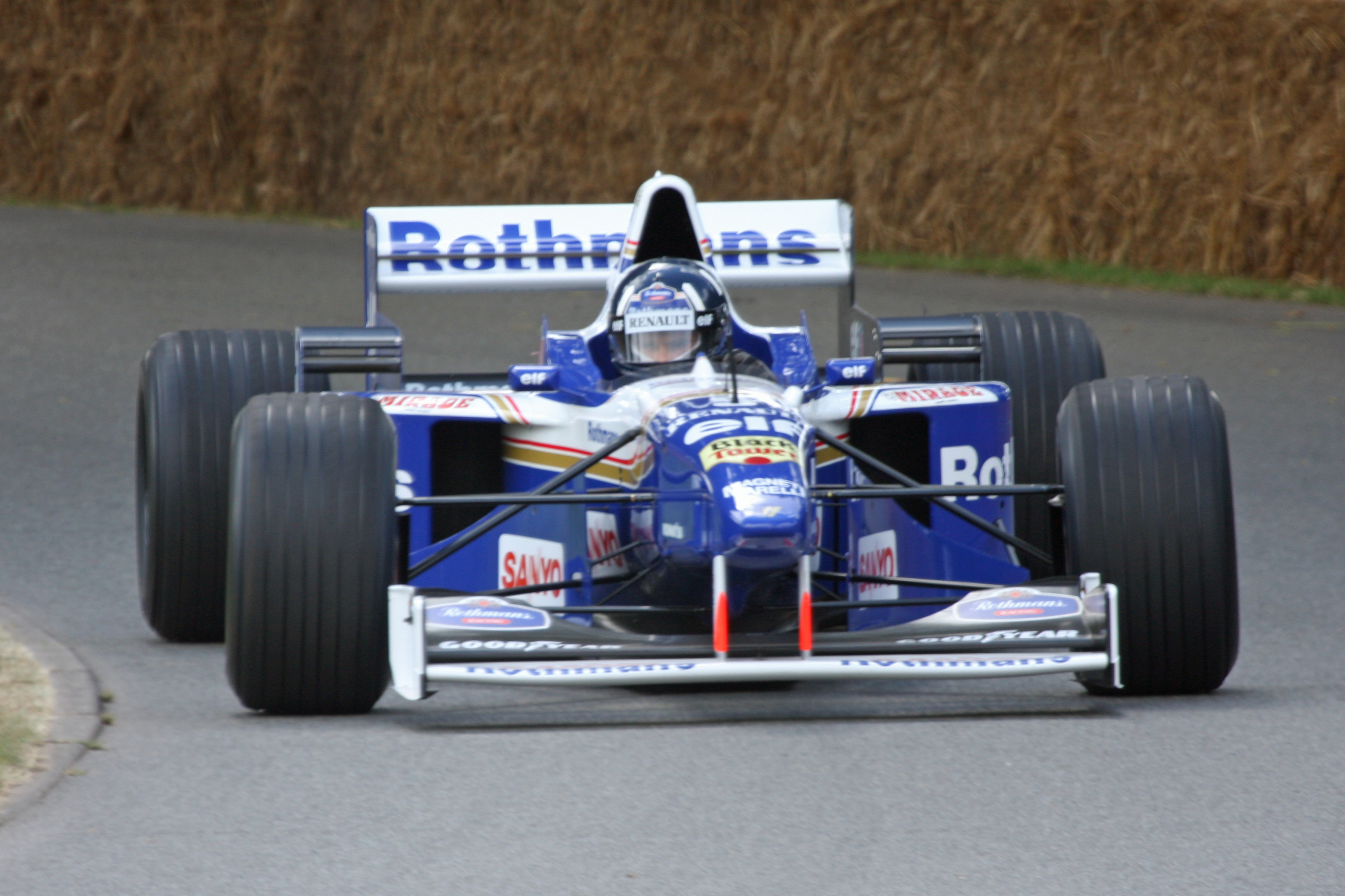 Williams Renault FW18 being demonstrated at the 2009 Goodwood Festival of Speed